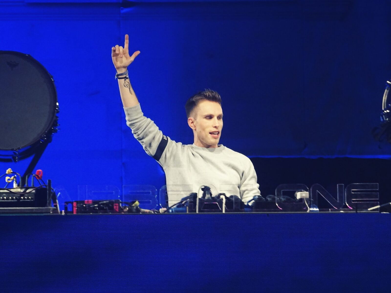 Nicky Romero playing live on Mainstage of Airbeat One 2017.